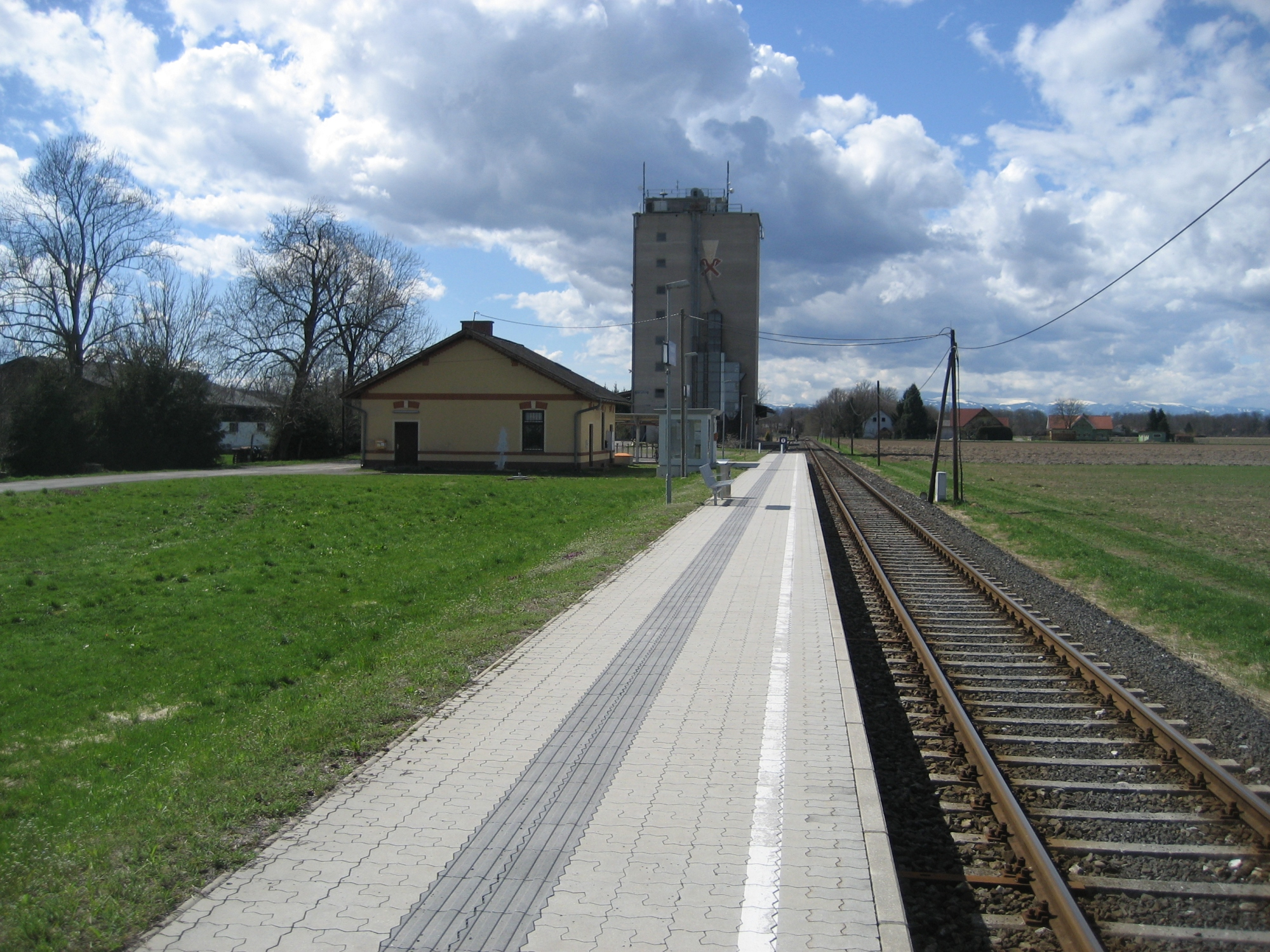 train station Weitersfeld an der Mur in Styria